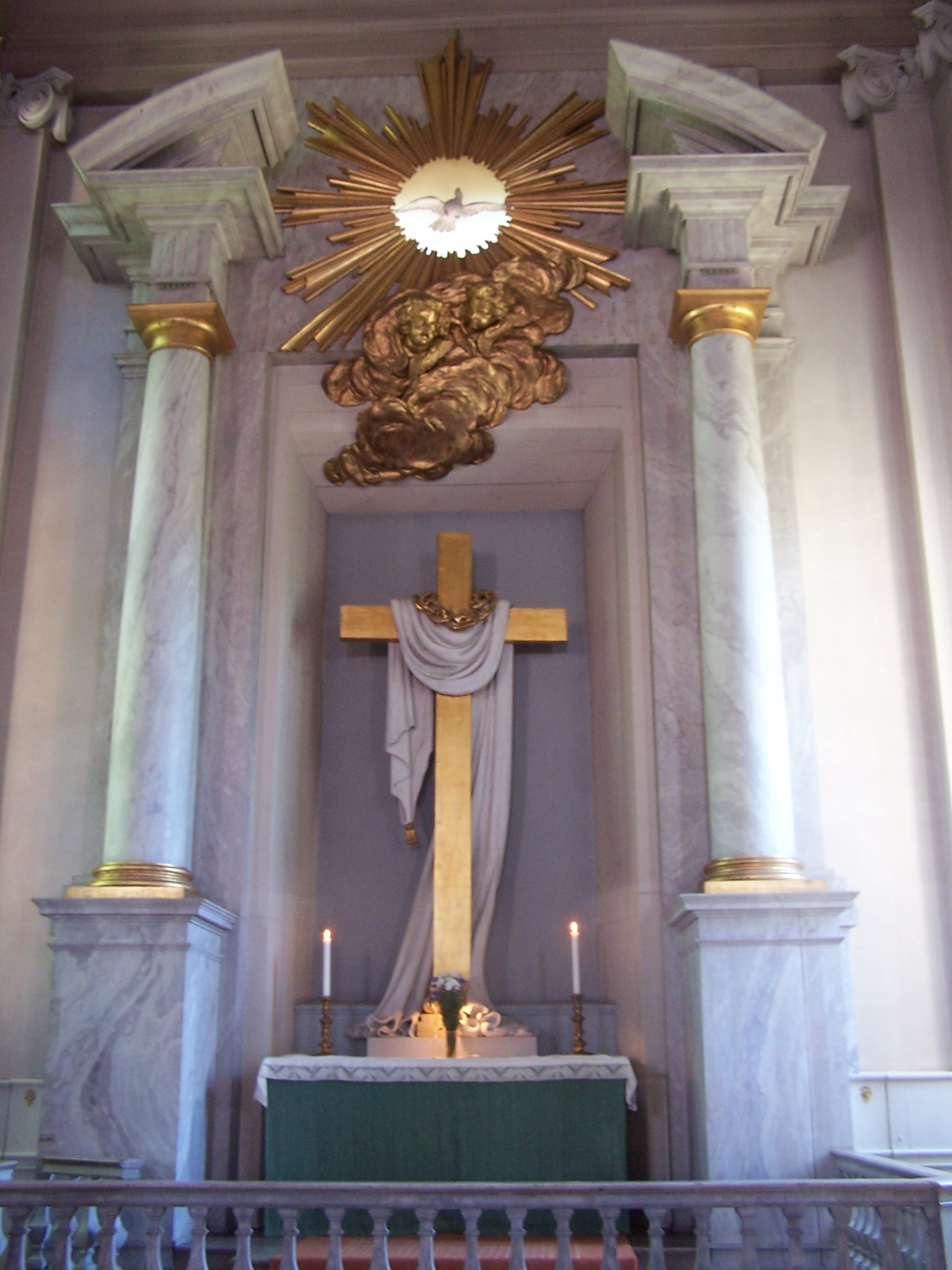 Altar in Trefaldighetskyrkan (Trinity church) in Karlskrona